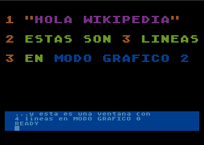 screen capture of a demo program on graphis mode on atari 8-bits XL/XE. scanlines are exagerated for demo pourposes